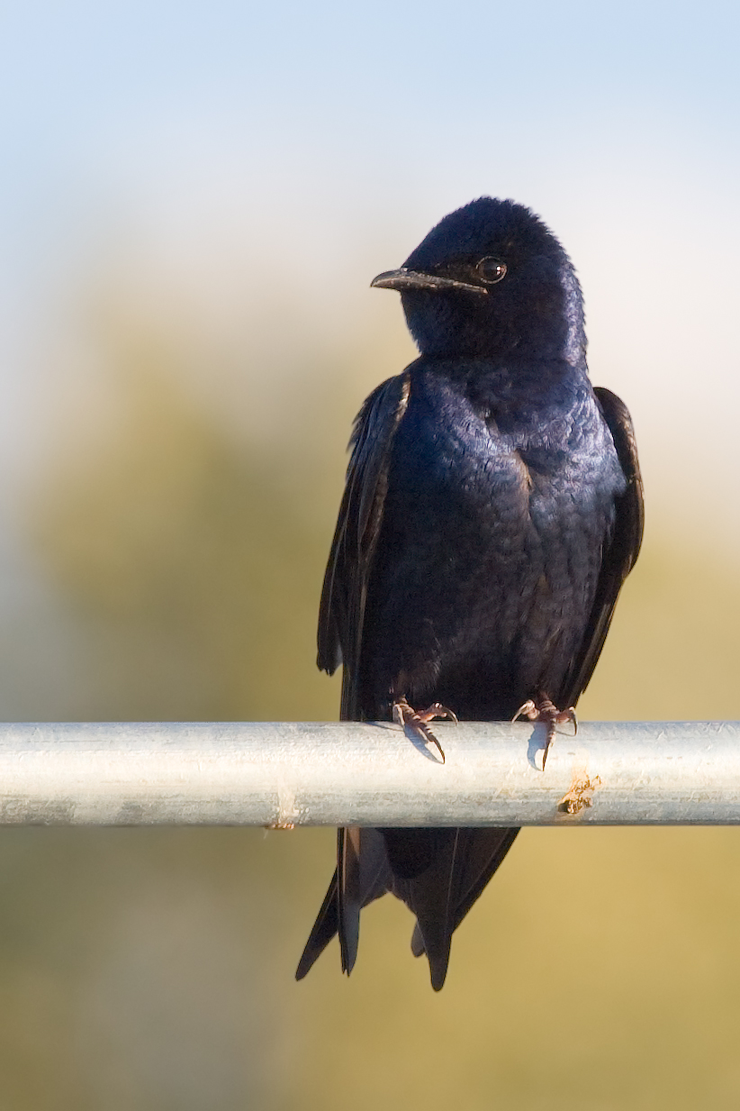 Purple Martin in Redmond, Washington, USA.